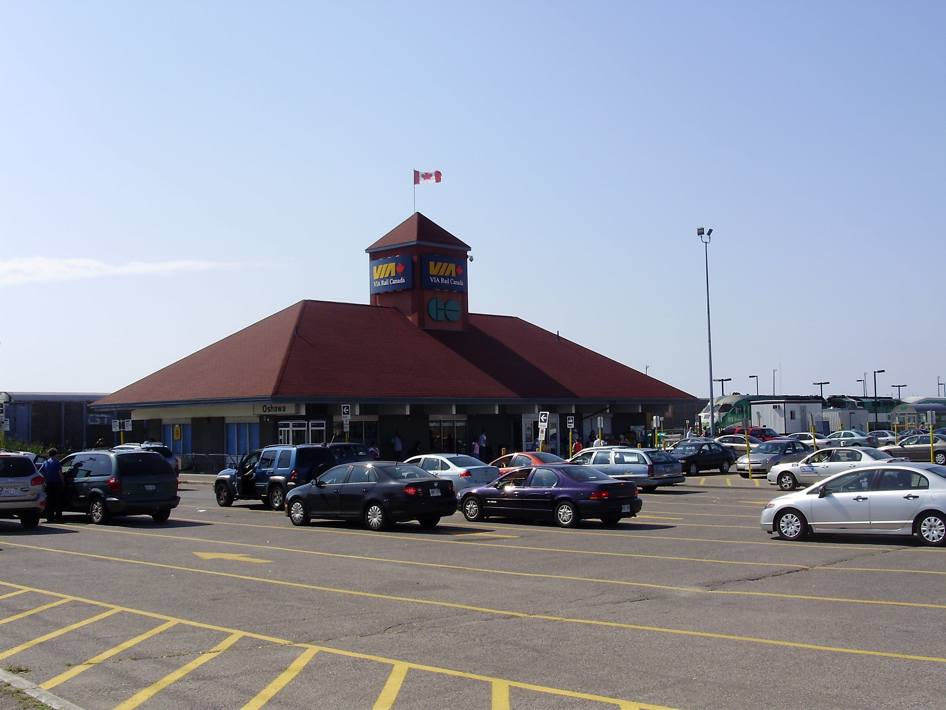 Oshawa GO Station, a railway station served by GO Transit and VIA Rail trains, in Oshawa, Ontario, Canada.